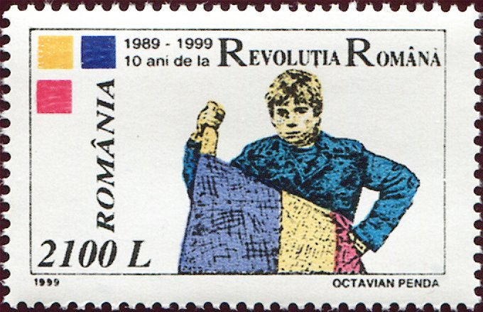 10th-Anniversary-of-Romanian-Revolution